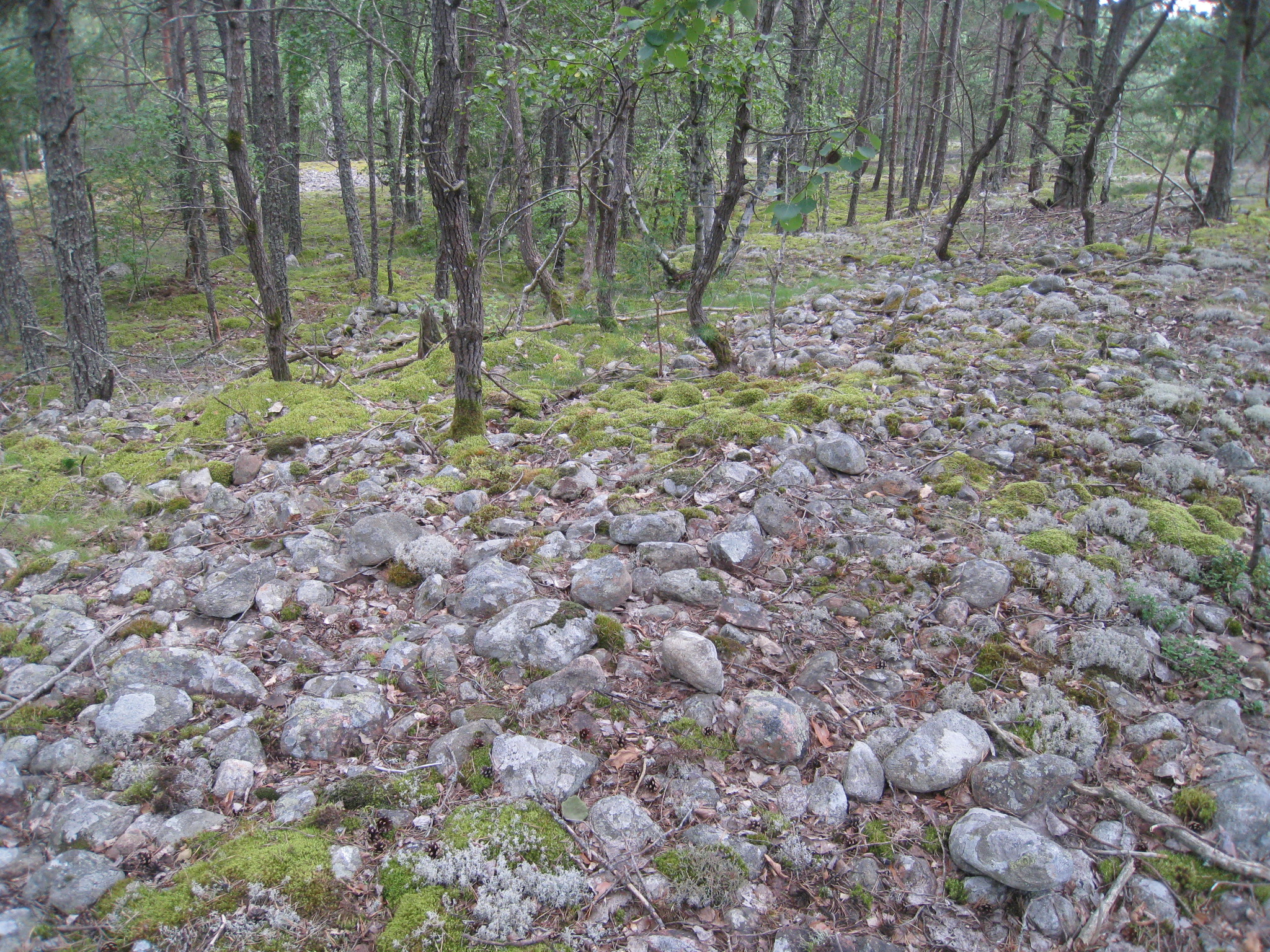 Cobblestones in Hummelmoraberget, Viksjö, Järfälla Municipality, Stockholm County.